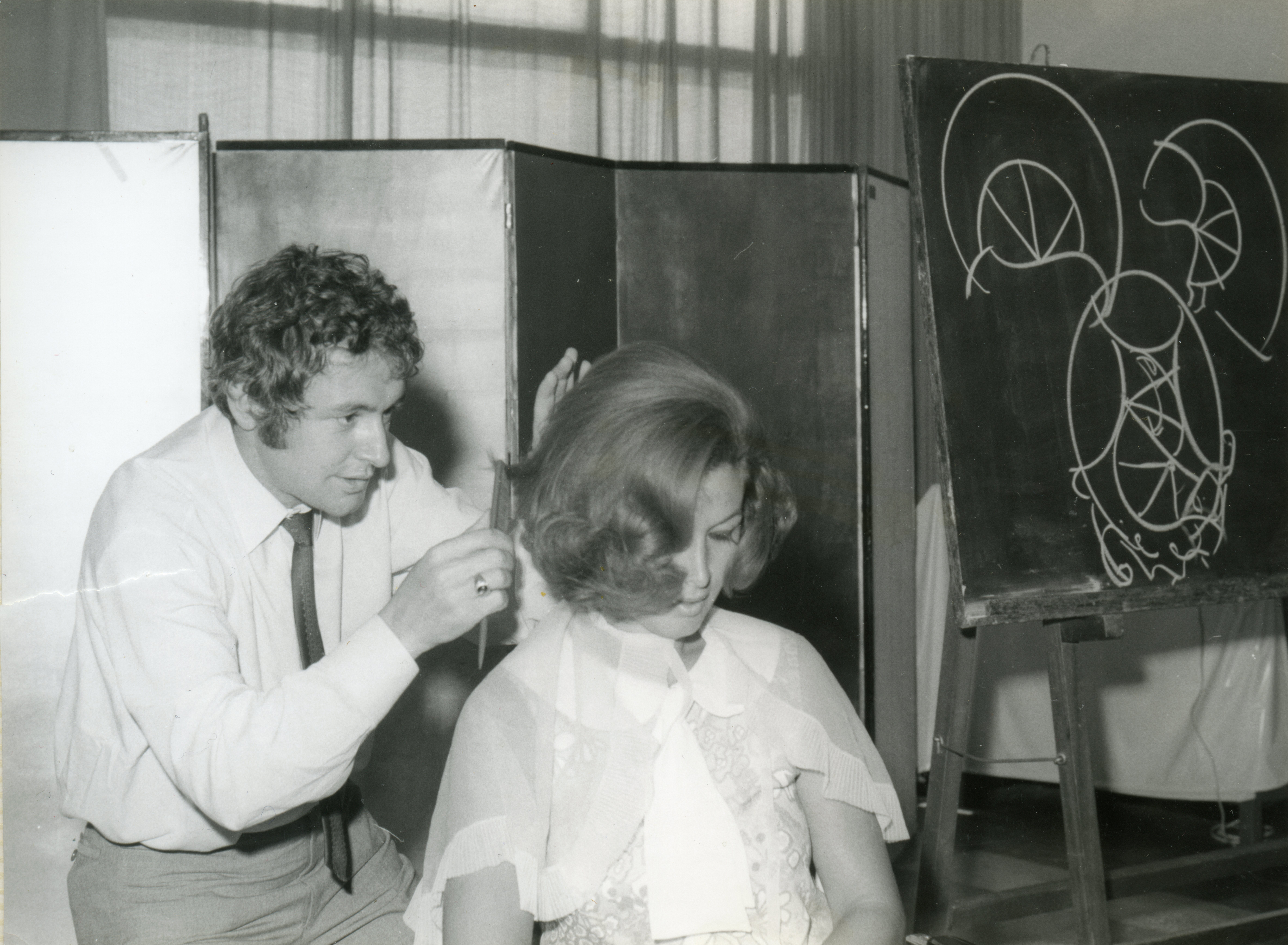 Leo and Lenie Passage Onstage